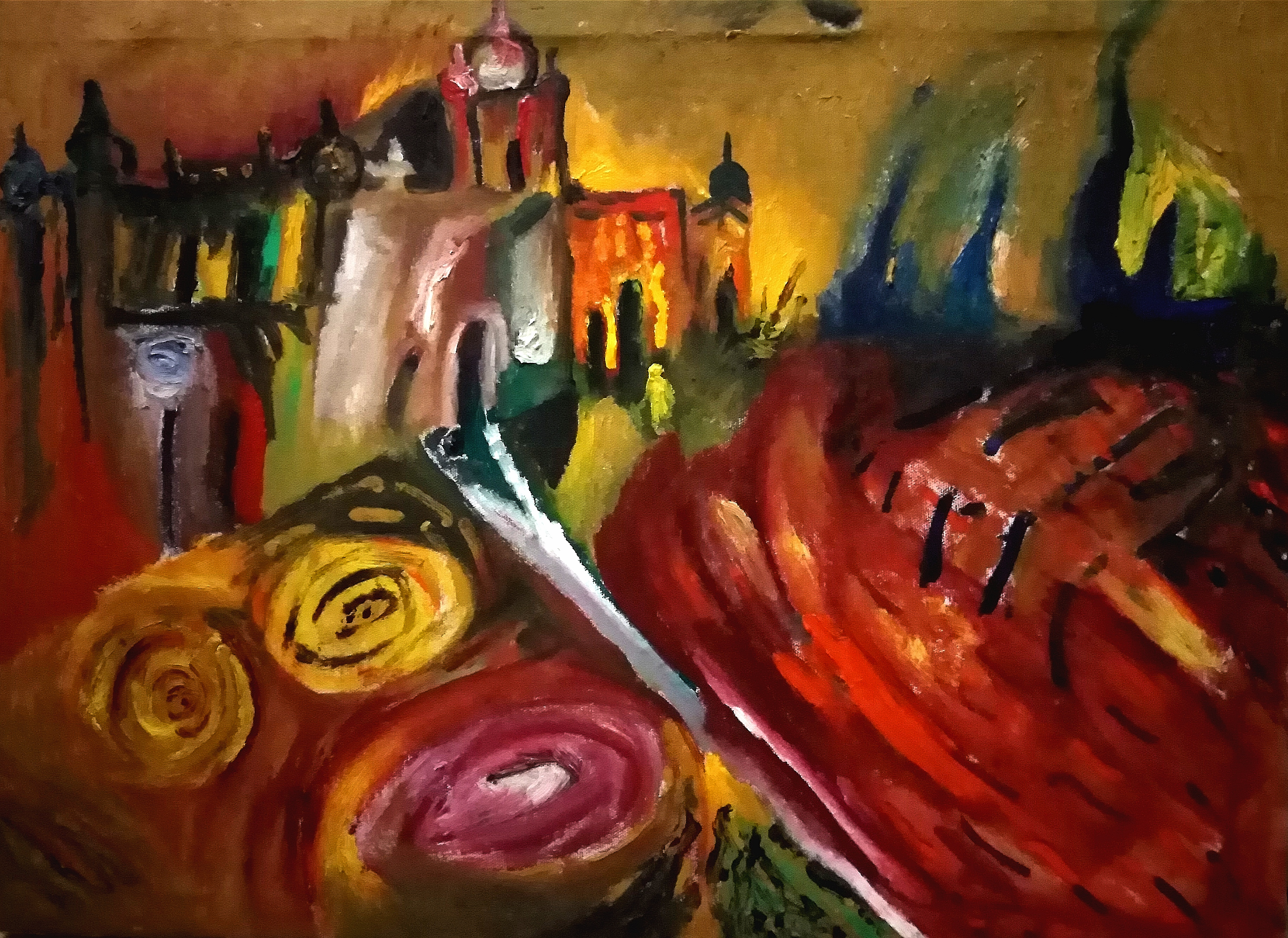 Oil on Canvas, Artist: Sher Khan